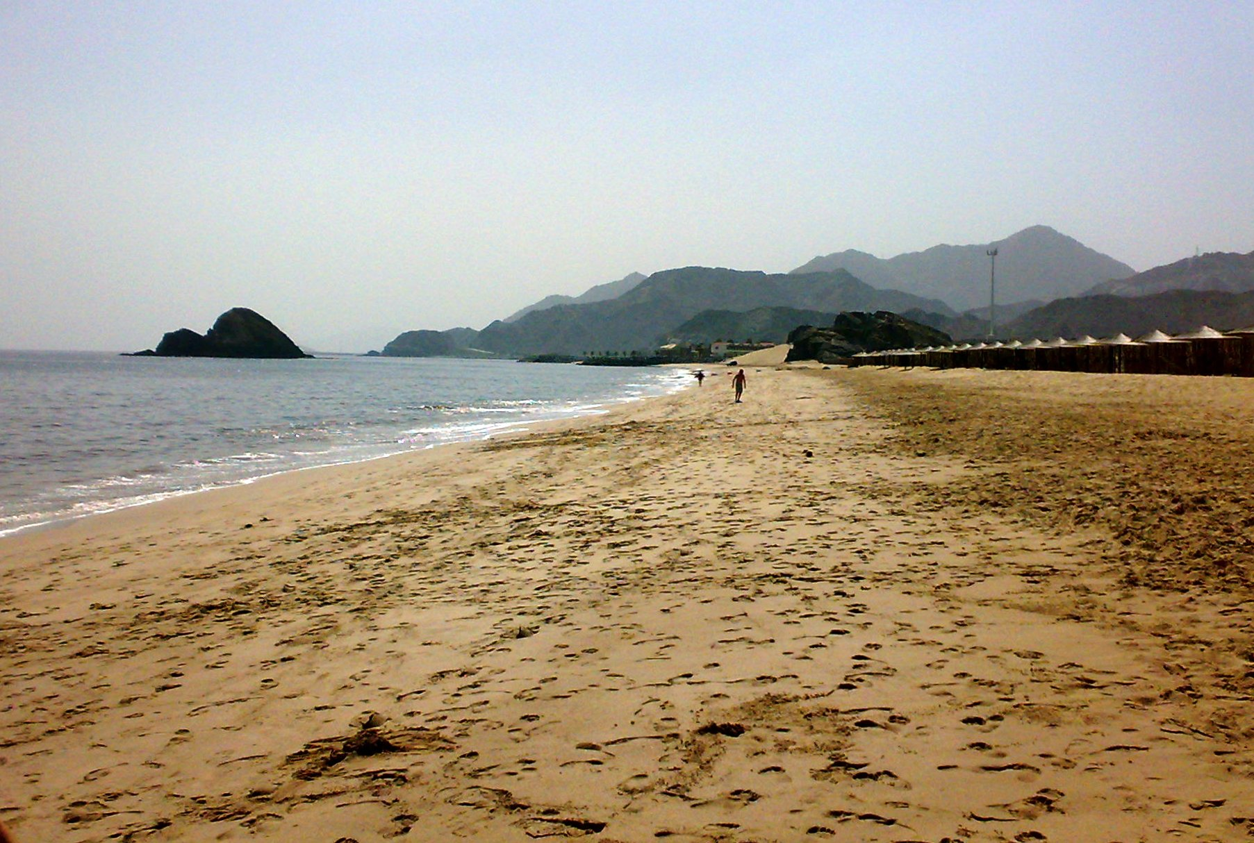 Image from the northern part of the Fujairah emirate, UAE - by the Indian Ocean